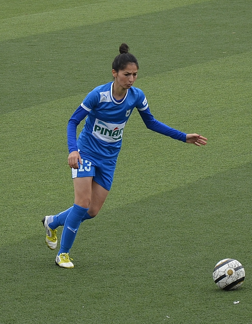 Sibel Duman for Konak Belediyespor in the 2013-14 season